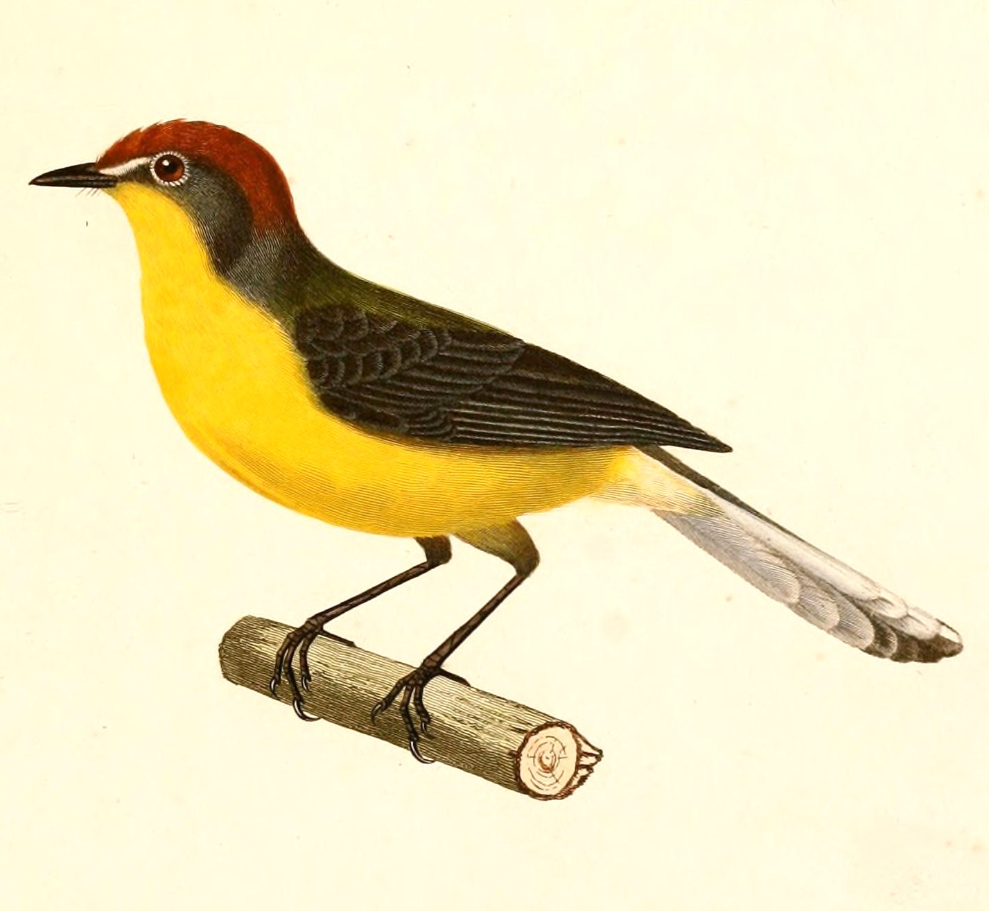 « Setophaga brunniceps » = Myioborus brunniceps (Brown-capped Whitestart)